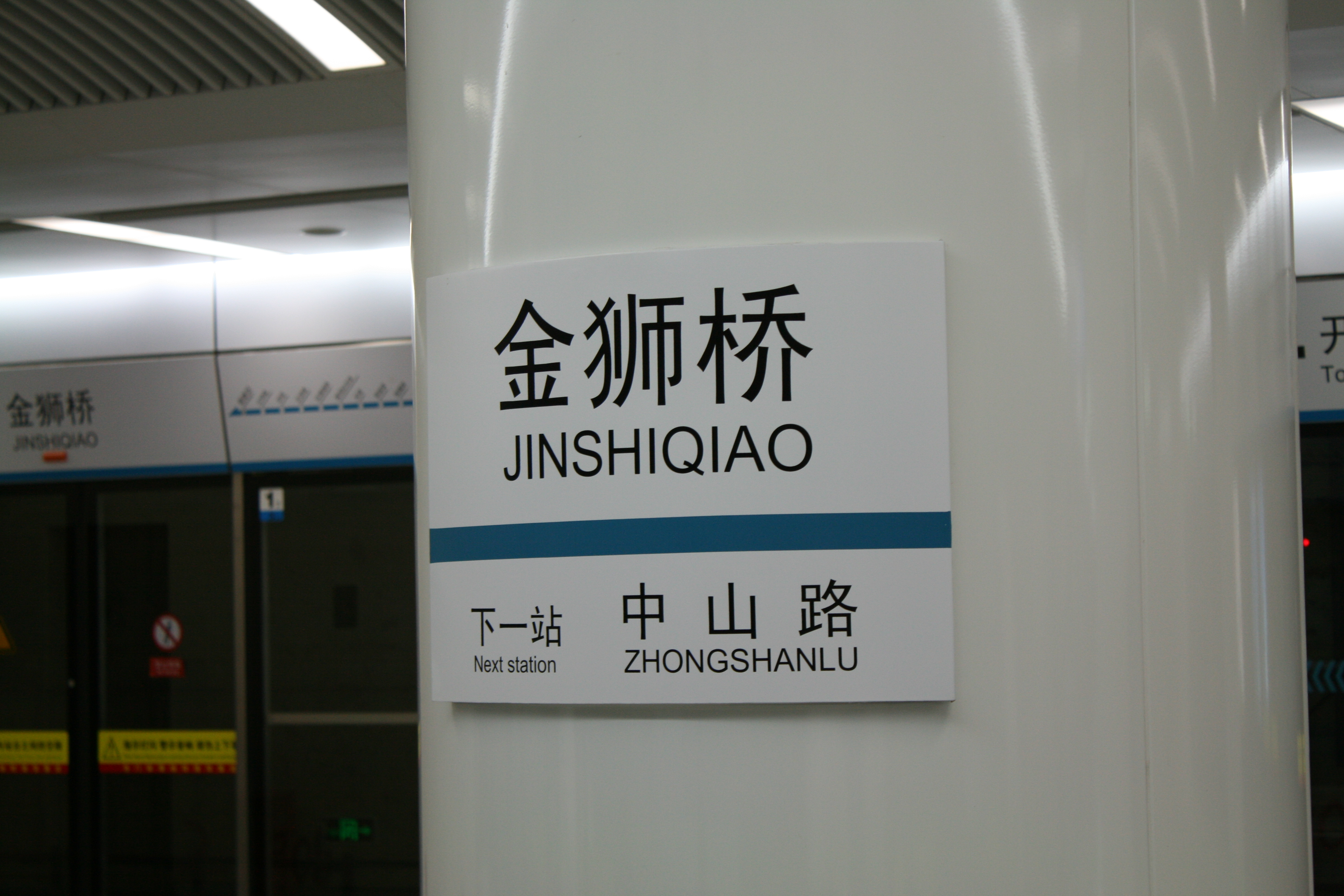 tianjin metro line 3 the JINSHIQIAO Station ...0001